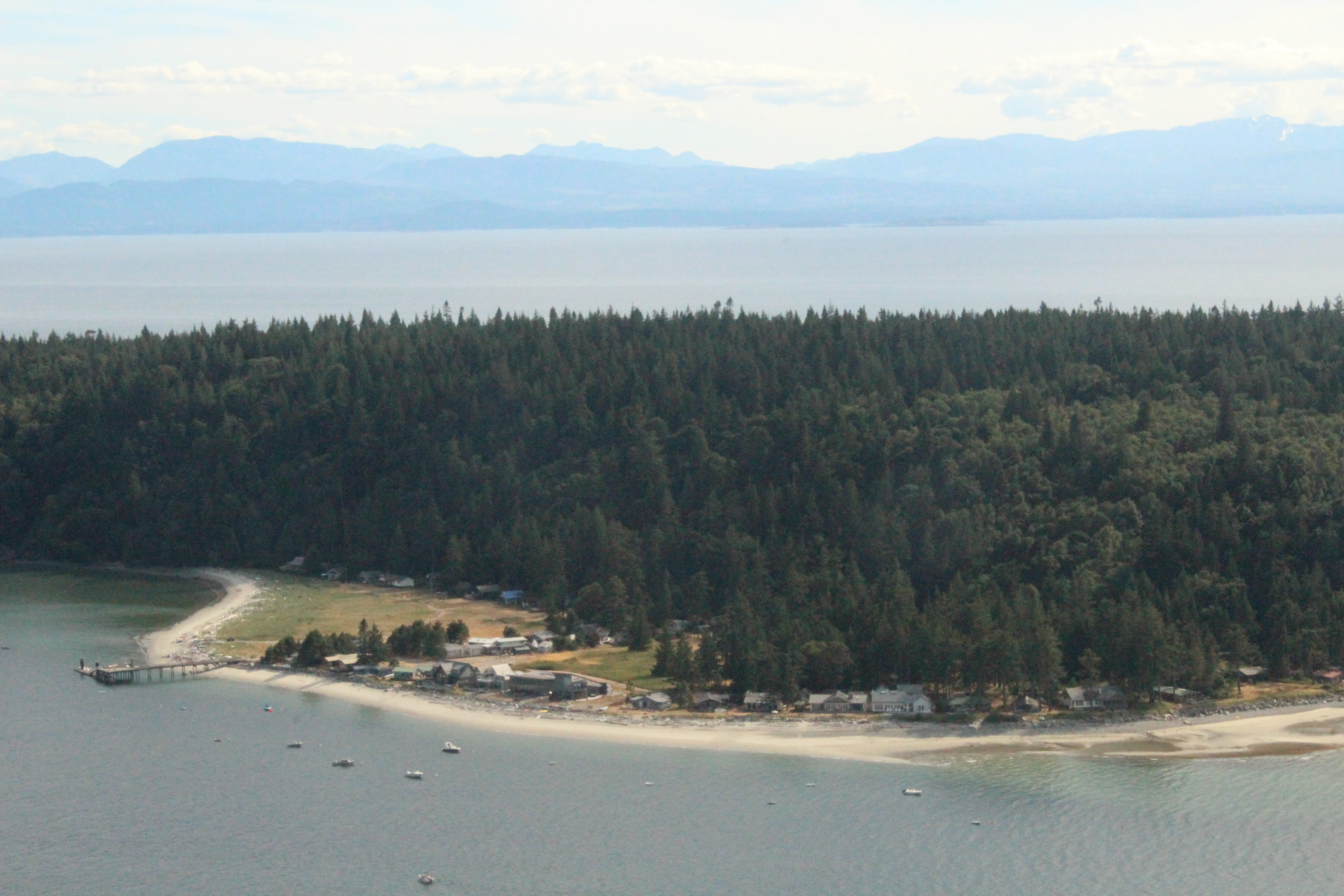 Vaucroft Beach, British Columbia, from a floatplane